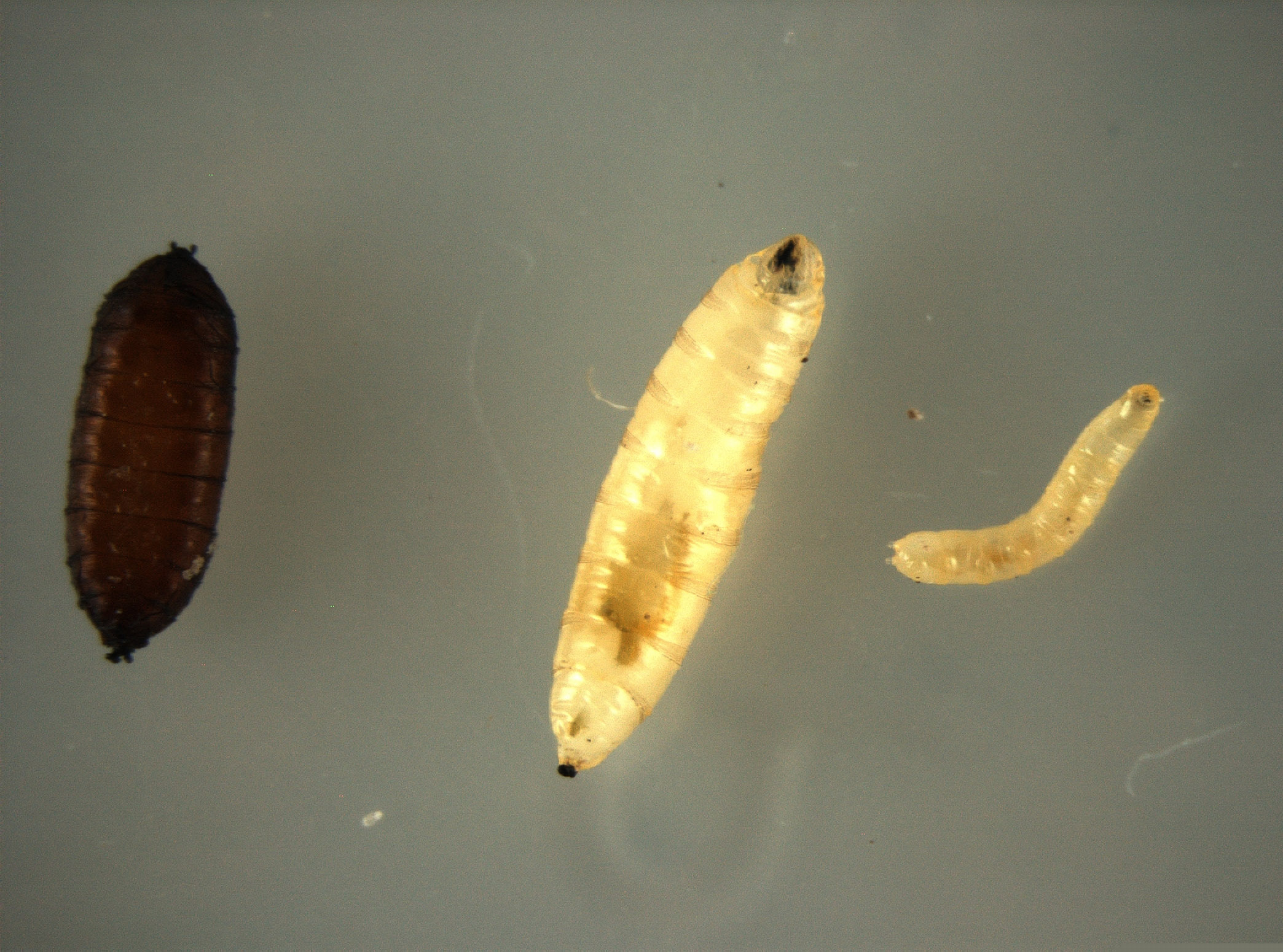 This depicts asparagus miner pupa, late instar, early instar from left to right.